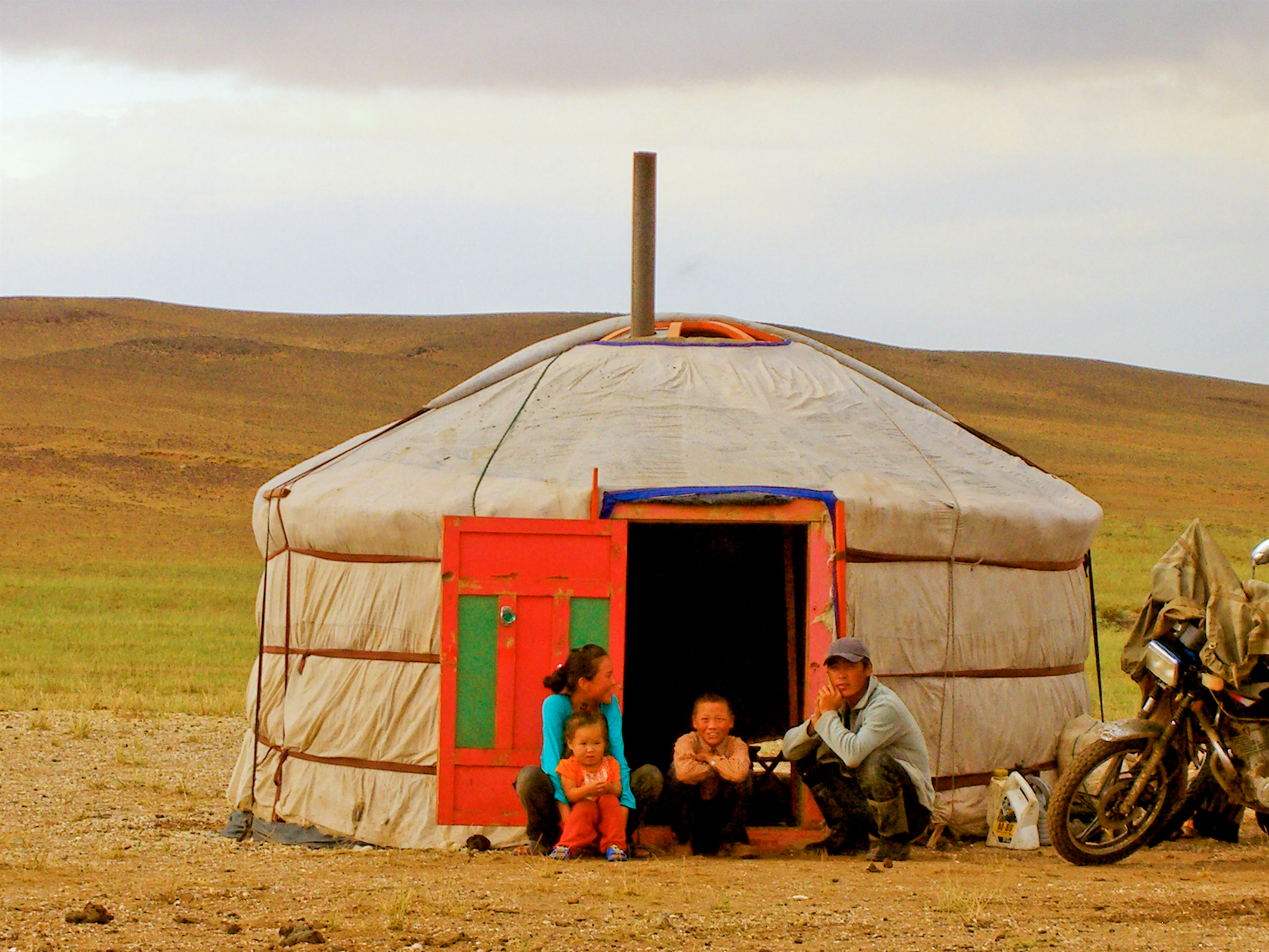 The family is a haven in a heartless world. - Attributed to Christopher Lasch (Nomadic family outside their ger, Gobi Desert, near Choir - Dornogovi, Mongolei